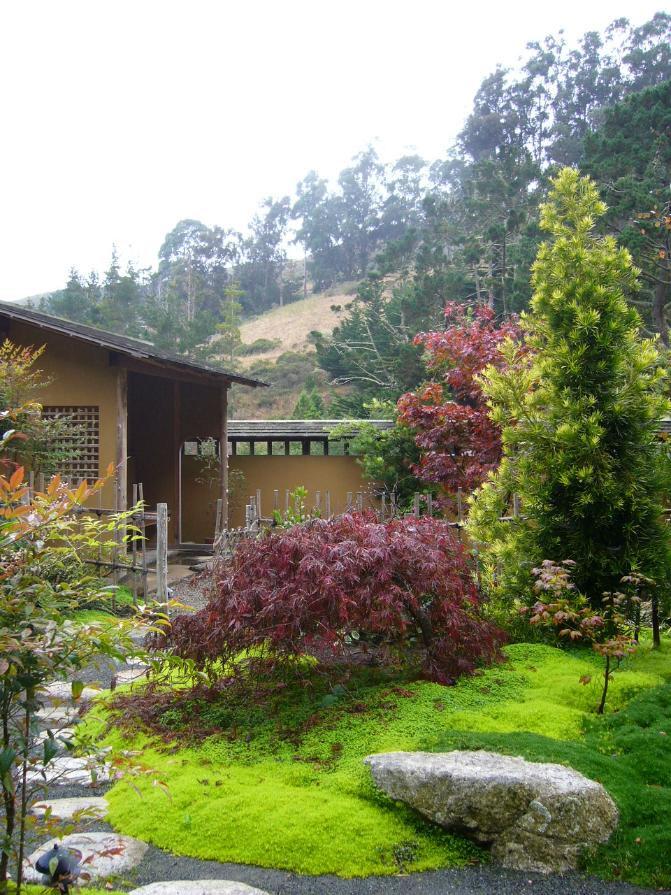 Tea house at Green Gulch Farm in California.